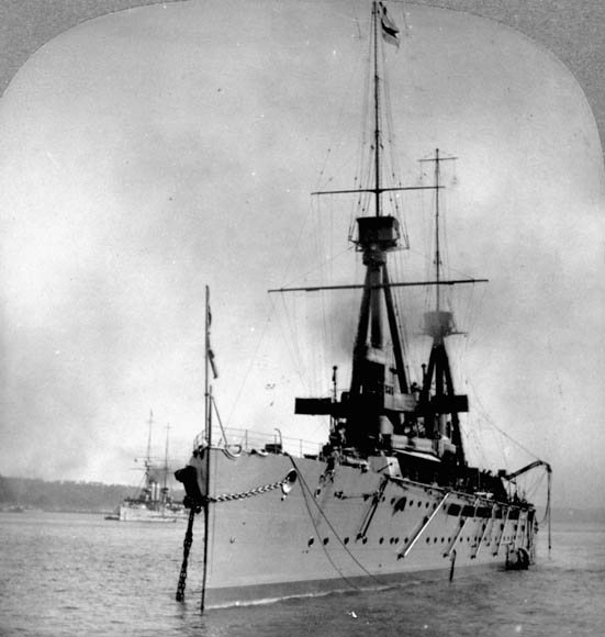 Photograph of British battlecruiser HMS Indomitable at the Quebec Tercentenary. Note that the Canada Archives incorrectly identify this as HMS Duncan.